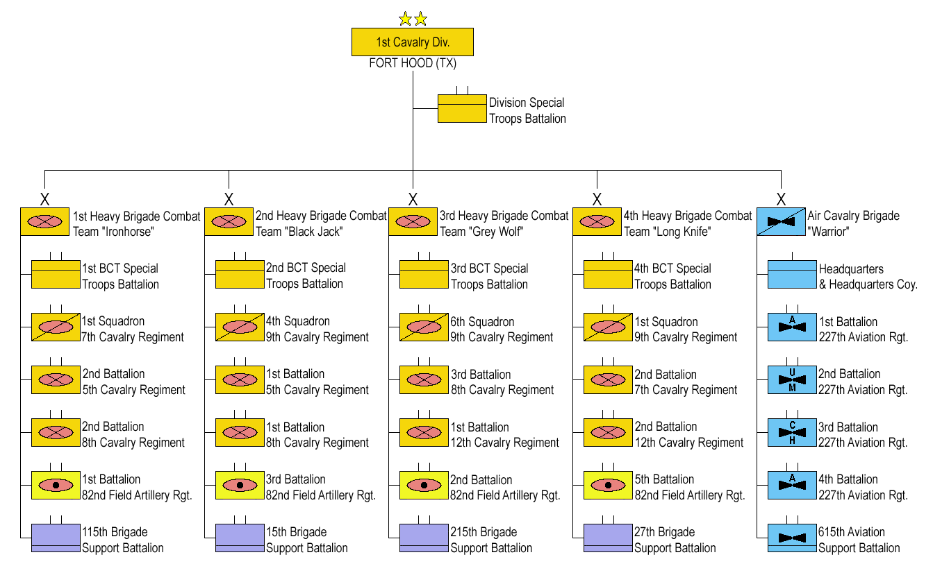 US Army 1st Cavalry Division Structure